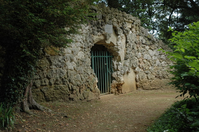 Dido's Cave, Stowe Landscape Gardens Dido's Cave in Stowe Landscape Gardens probably dates from the 1720s.